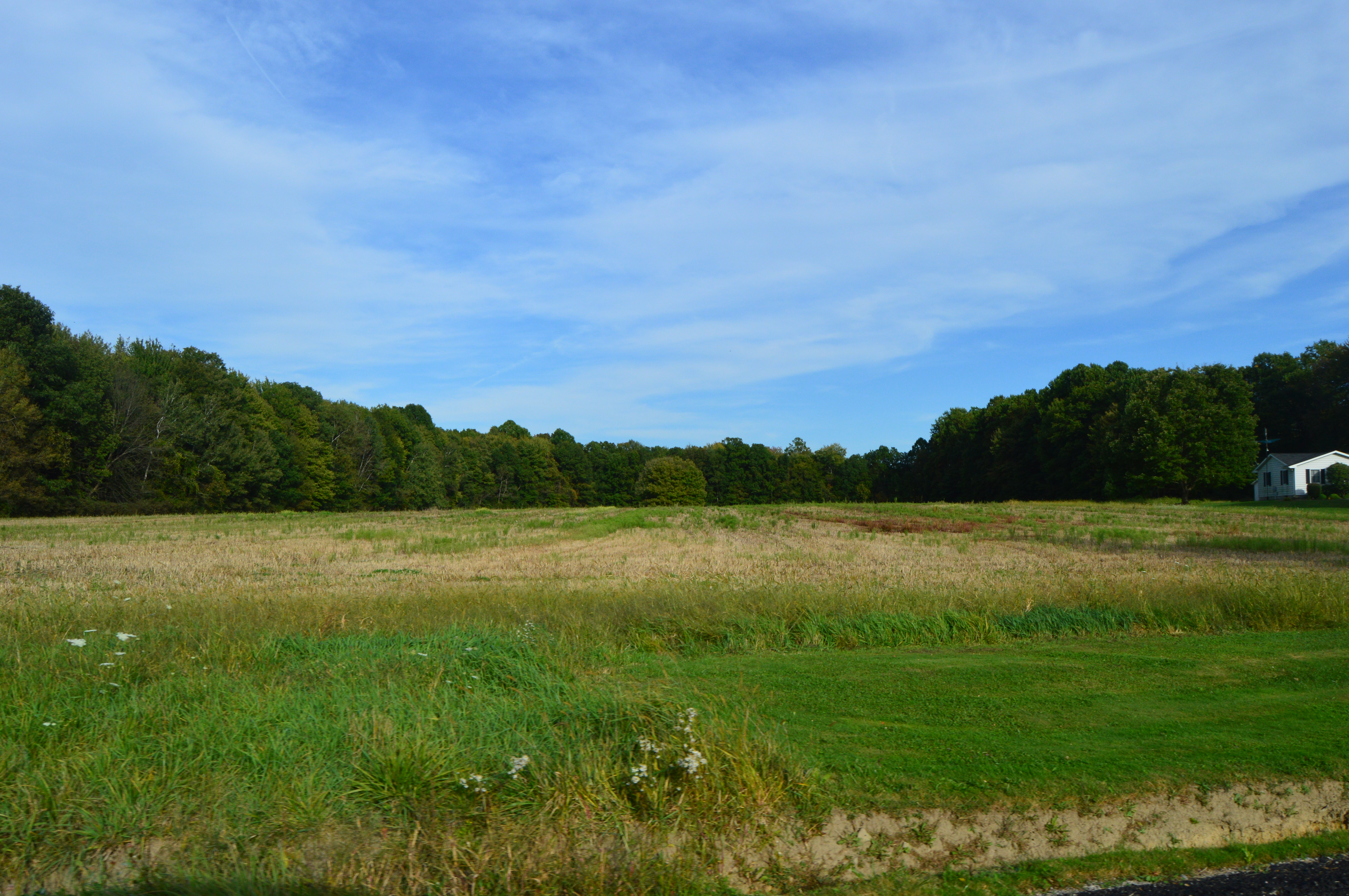 Fields on the eastern side of Stevenson Road, just north of Cherry Hill Road, in Salem Township, Mercer County, Pennsylvania, United States.